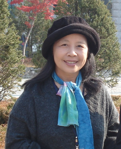 Chan dung Le Minh Khue